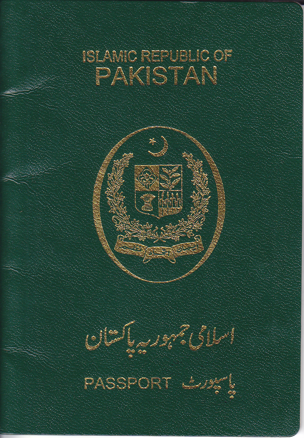 Pakistani Passport Front View